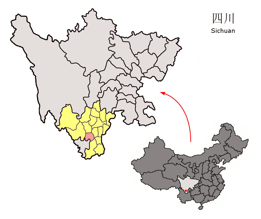 Location of Dechang County (pink) and Liangshan Prefecture (yellow) within Sichuan province of China Map drawn in september 2007 using various sources, mainly : Sichuan province administrative regions GIS data: 1:1M, County level, 1990 Sichuan Counties map from